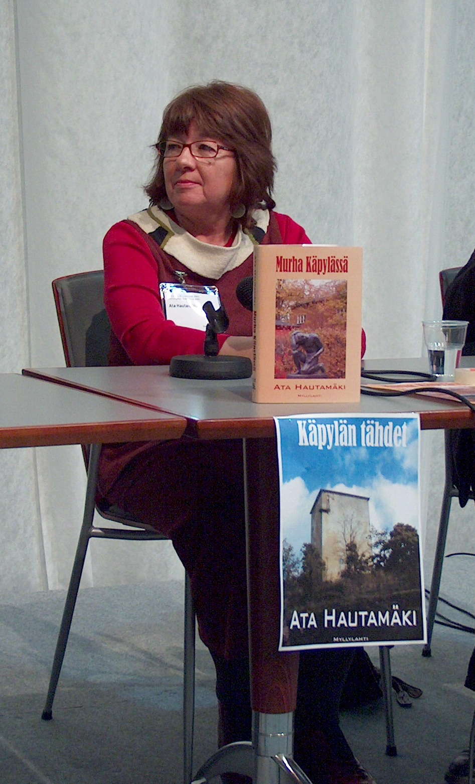 Ata Hautamäki, Finnish writer, at the Helsinki Book Fair in 2005.